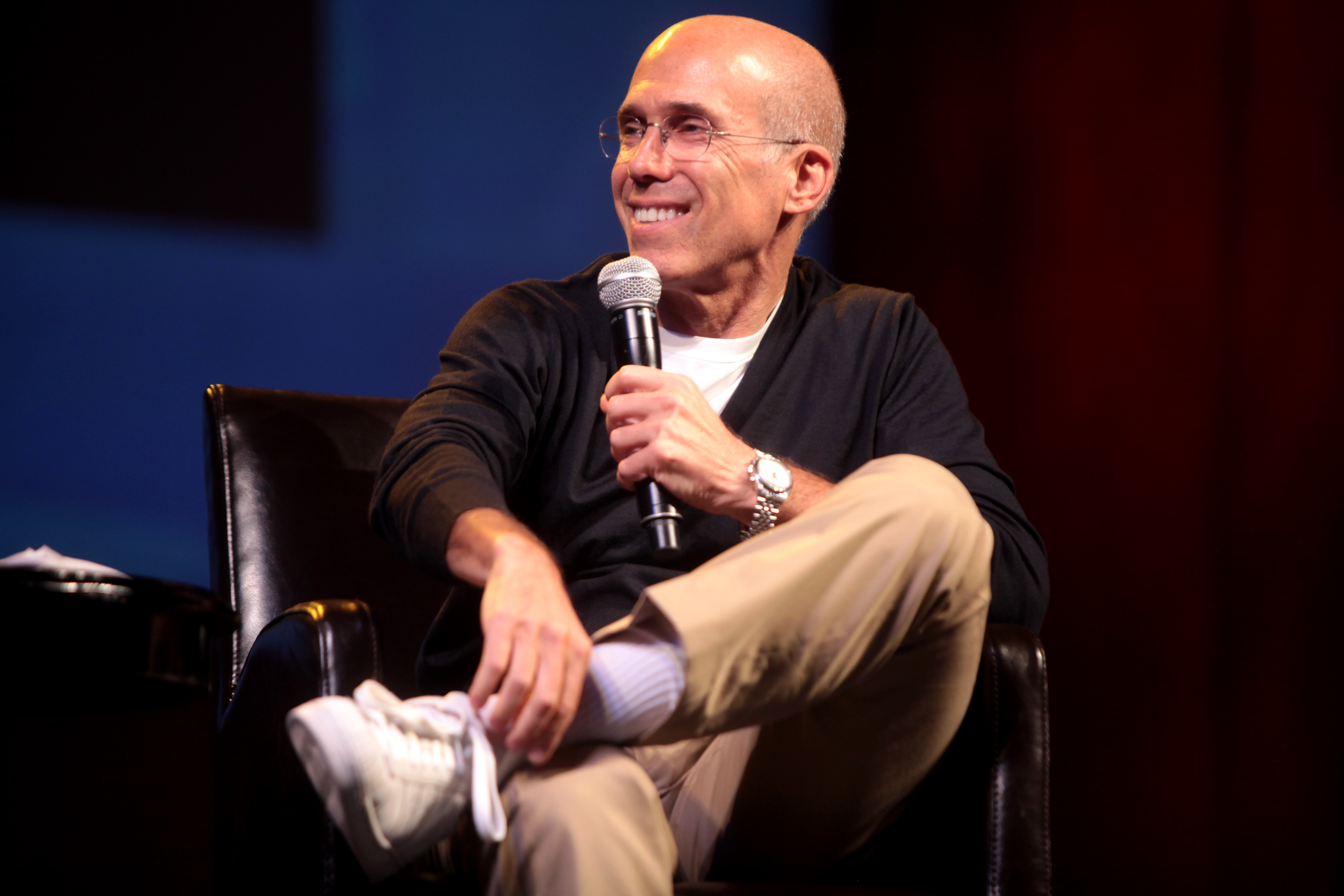 Jeffrey Katzenberg speaking at the 2014 VidCon at the Anaheim Convention Center in Anaheim, California.